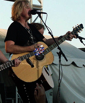 Taken by Weatherman90 at North Dakota State Fair Def Leppard Concert, 2007-07-26, adapted from Image:DefLeppard1.JPG